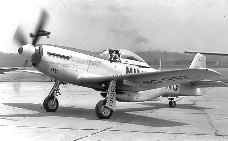 109th Fighter Squadron North American F-51K-10-NT Mustang 44-11992